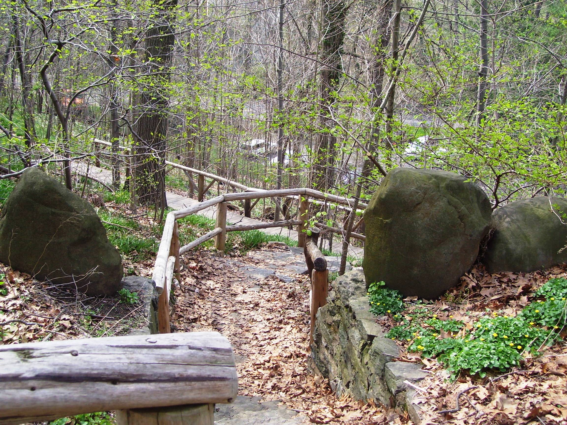 Part of the woodland path at Wave Hill in the Bronx, New York City